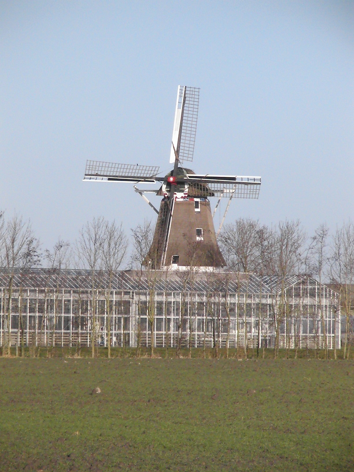 Moune fan Ropta (Windmill near the village of Metslawier)